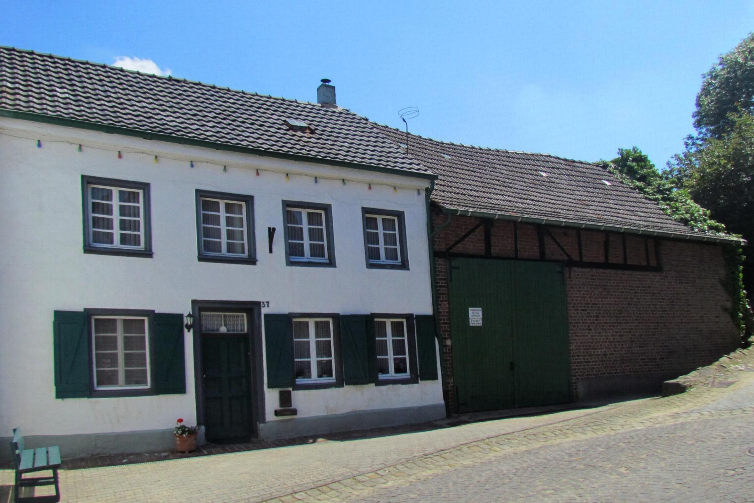 This is a photograph of an architectural monument.It is on the list of cultural monuments of Korschenbroich